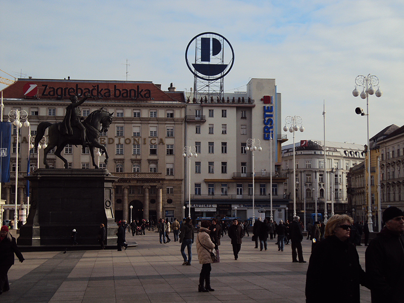 Main public square of Zagreb. Photo taken during winter.